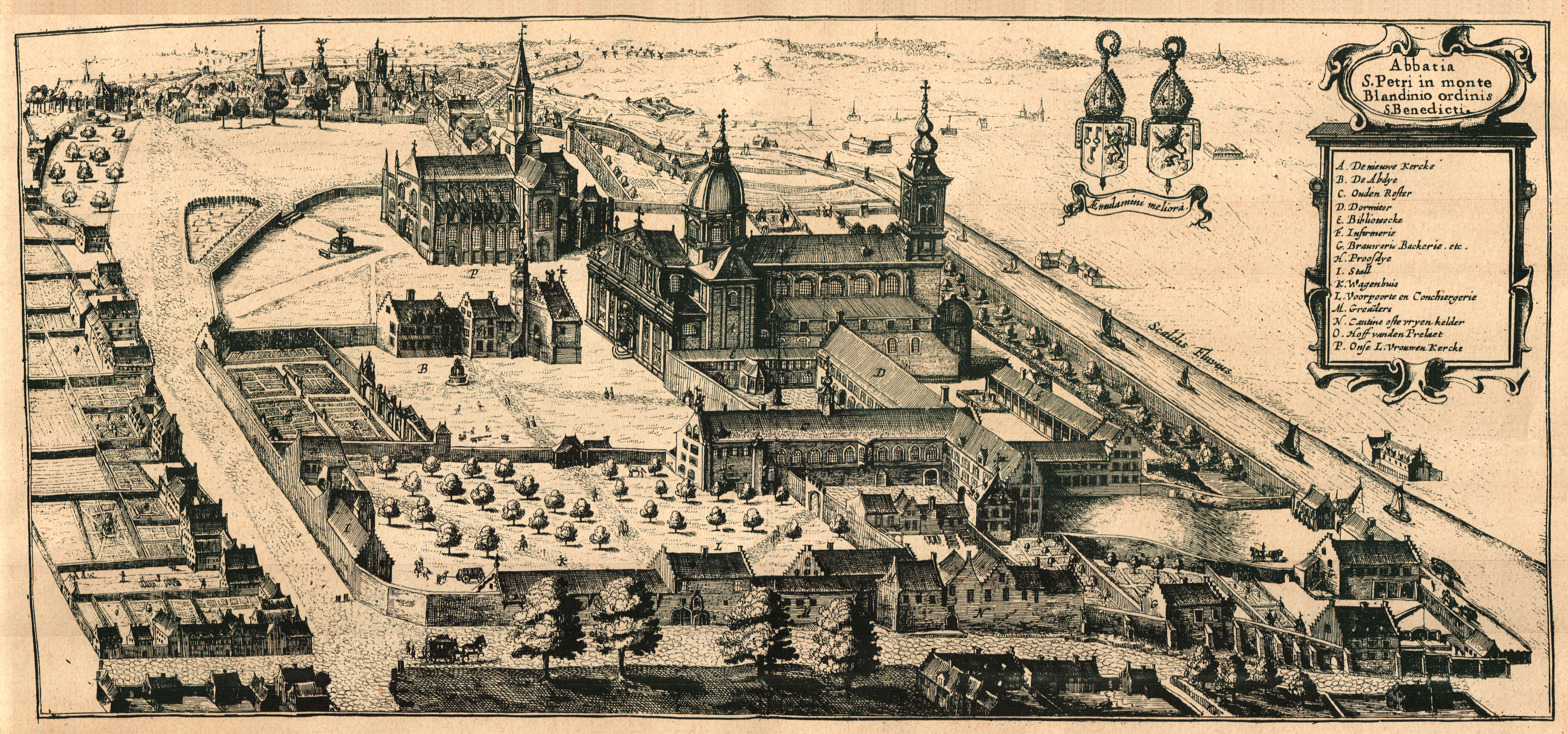 The St Peter Mt Blandin Abbey in 18th century(Belgium)